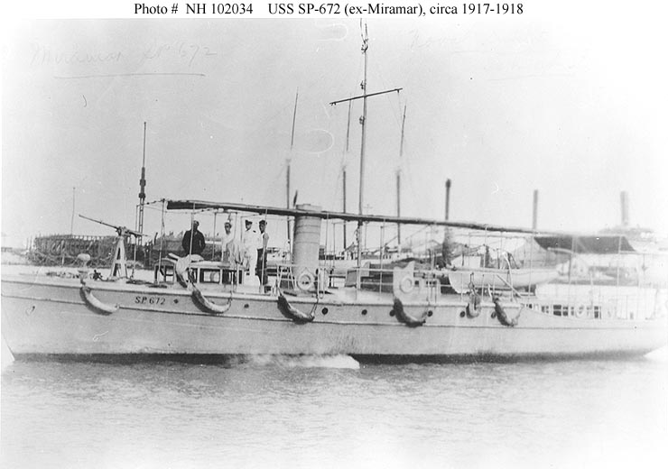 The United States Navy patrol vessel USS SP-672, ex-, during World War I.